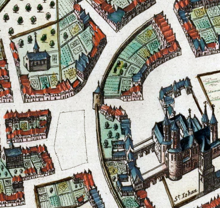 Maastricht, the Netherlands. Detail of a map of Maastricht from the Atlas Maior, published by Blaeu (Amsterdam, 1652), showing the first Medieval city wall around Tweebergenpoort (center).